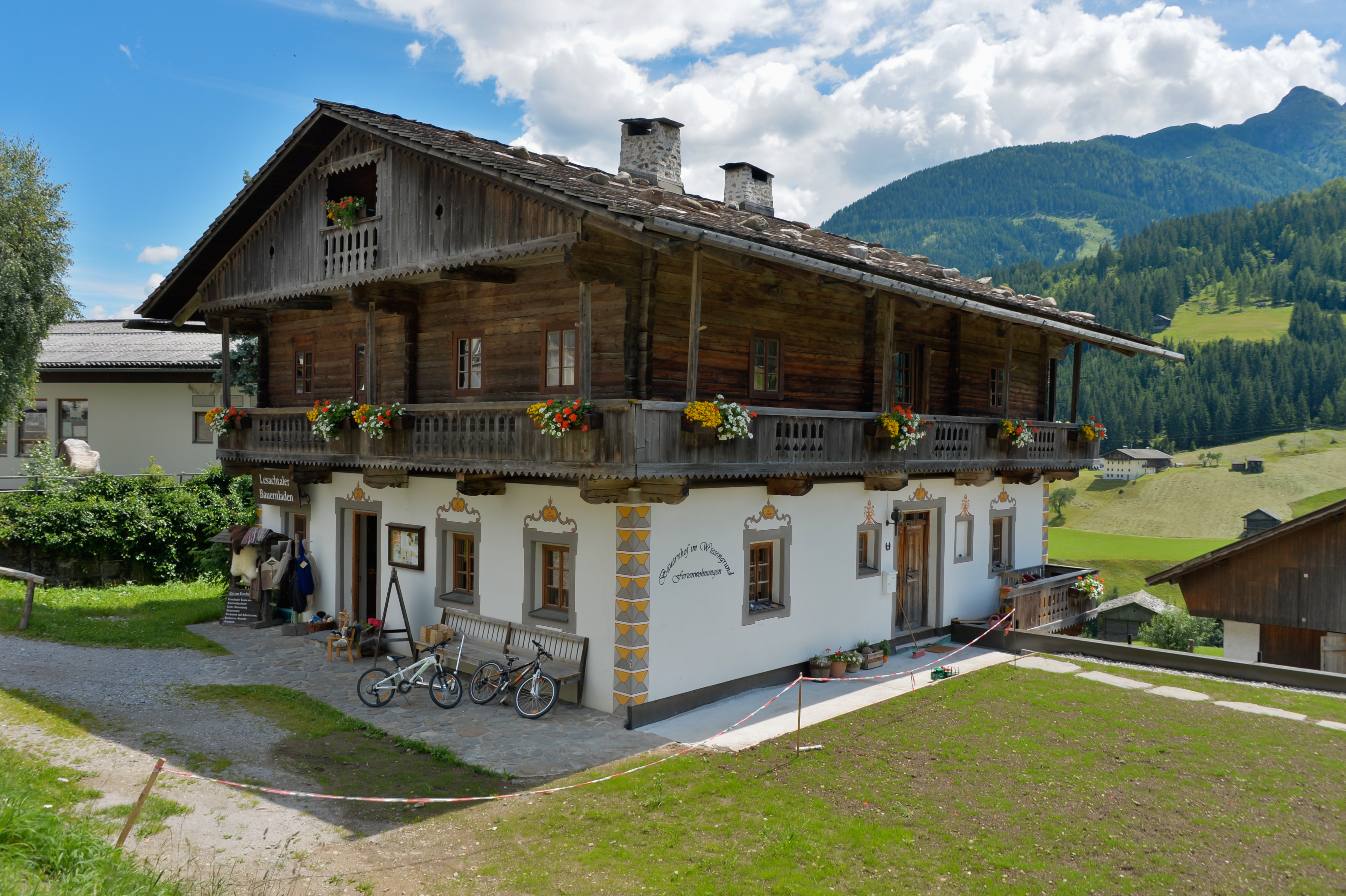 Village shop at Maria Luggau, municipality Lesachtal, district Hermagor, Carinthia, Austria, EU